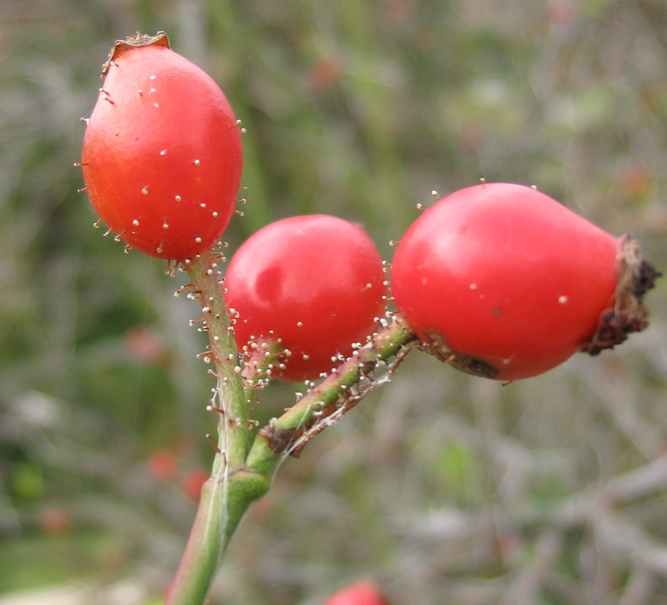 Hips, fruits of Rosa micrantha with gland-tipped bristles